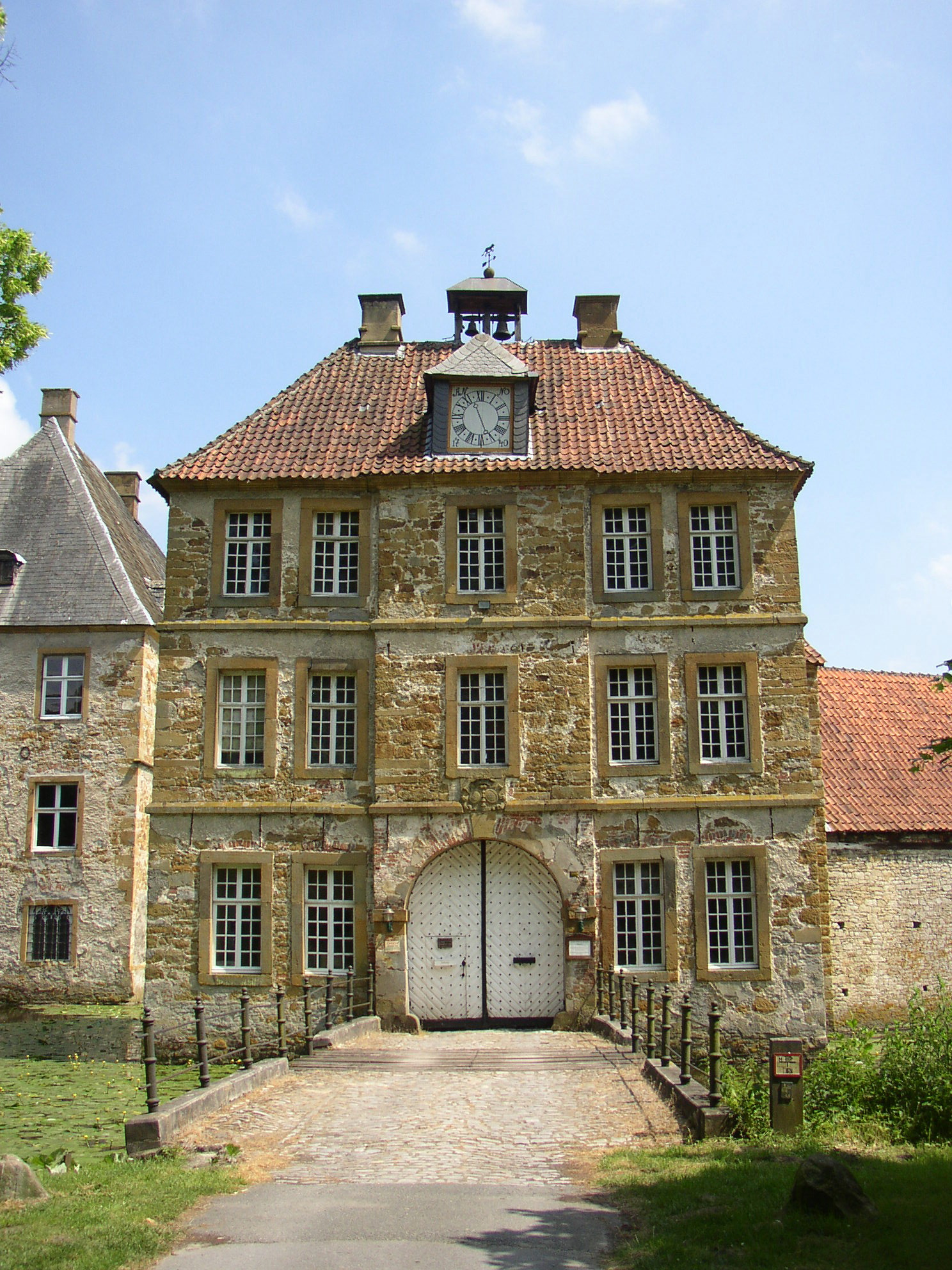 driveway to court of moated castle Tatenhausen in Halle (Westfalen)